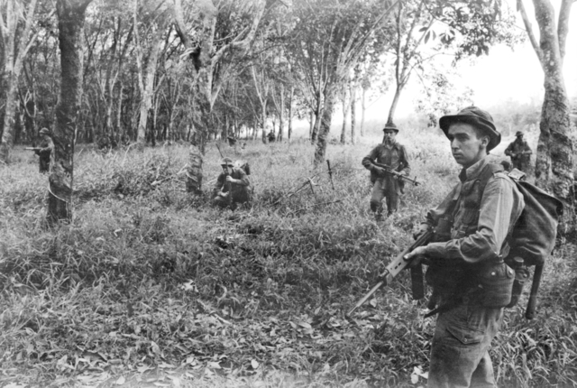 AWM image CAM/68/0003/VN. South Vietnam. 1968-01. Troops of 3rd Battalion, The Royal Australian Regiment (3RAR), on patrol through Binh Ba rubber plantation during Operation Balaclava.